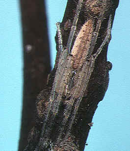 male Larinia phthisica from Okinawa.